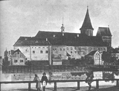 Königsberg in the early 19th century